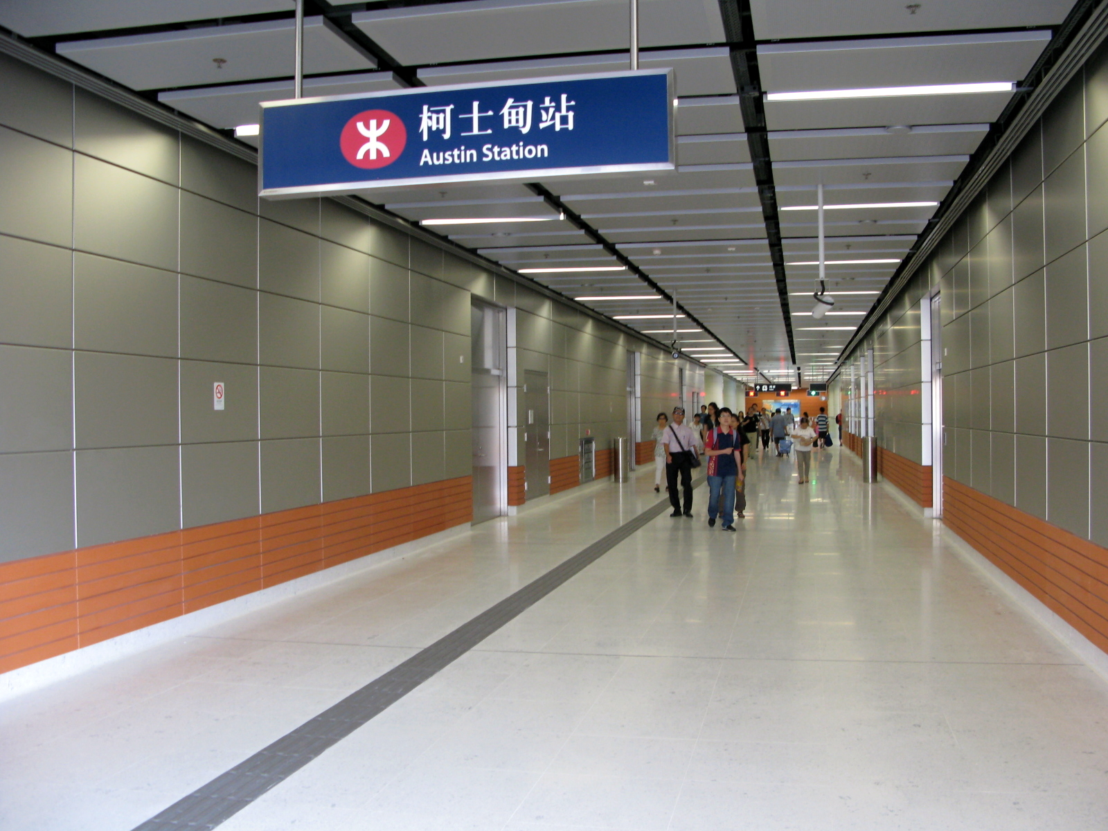 HK Austin Station 柯士甸站